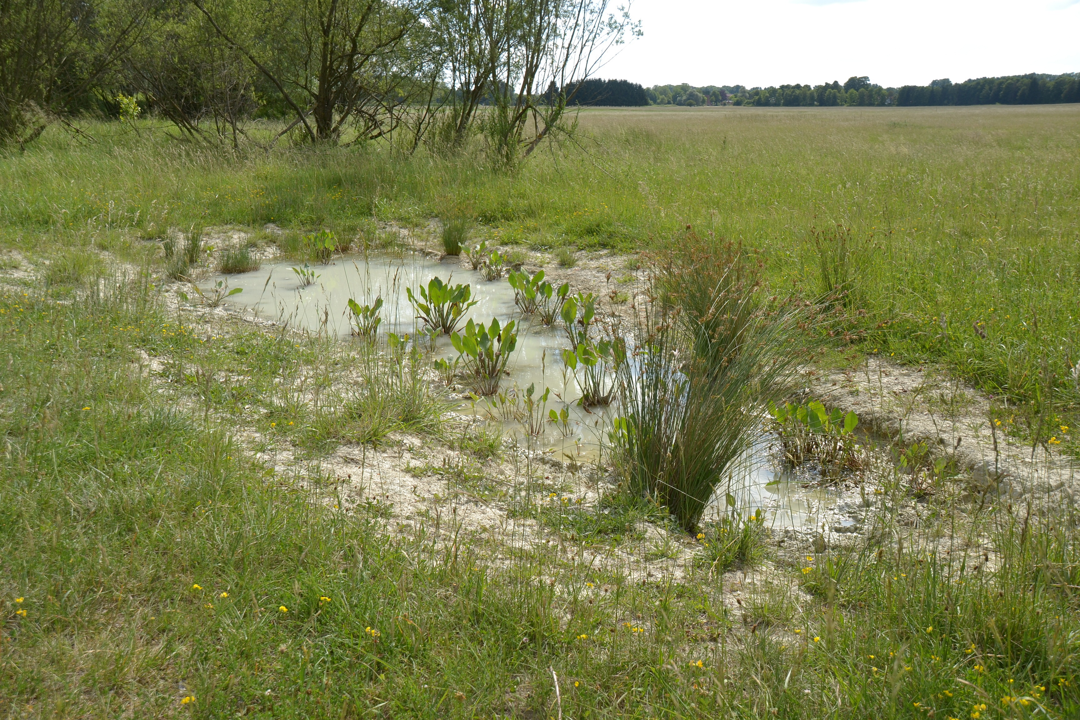 Nature reserve ("Ehemaliger Standortübungsplatz Landshut mit Isarleite") in Landshut, Bavaria, Germany. In the compacted ruts created by military vehicles puddles have constituted themselves which warm up quickly and in this way provide ideal conditions for the Yellow-bellied toad and the Green Toad to spawn